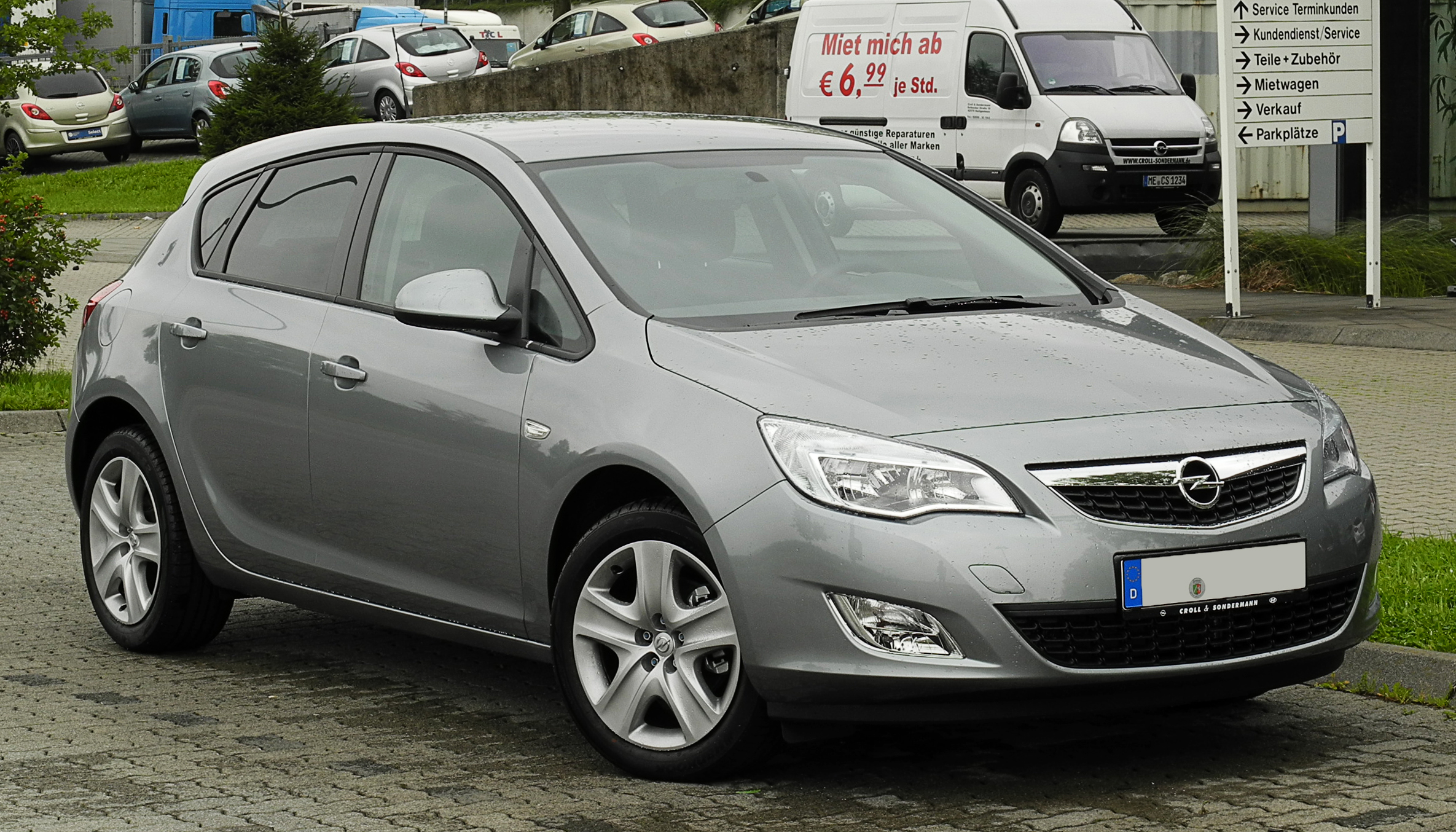 Opel Astra Design Edition (J)